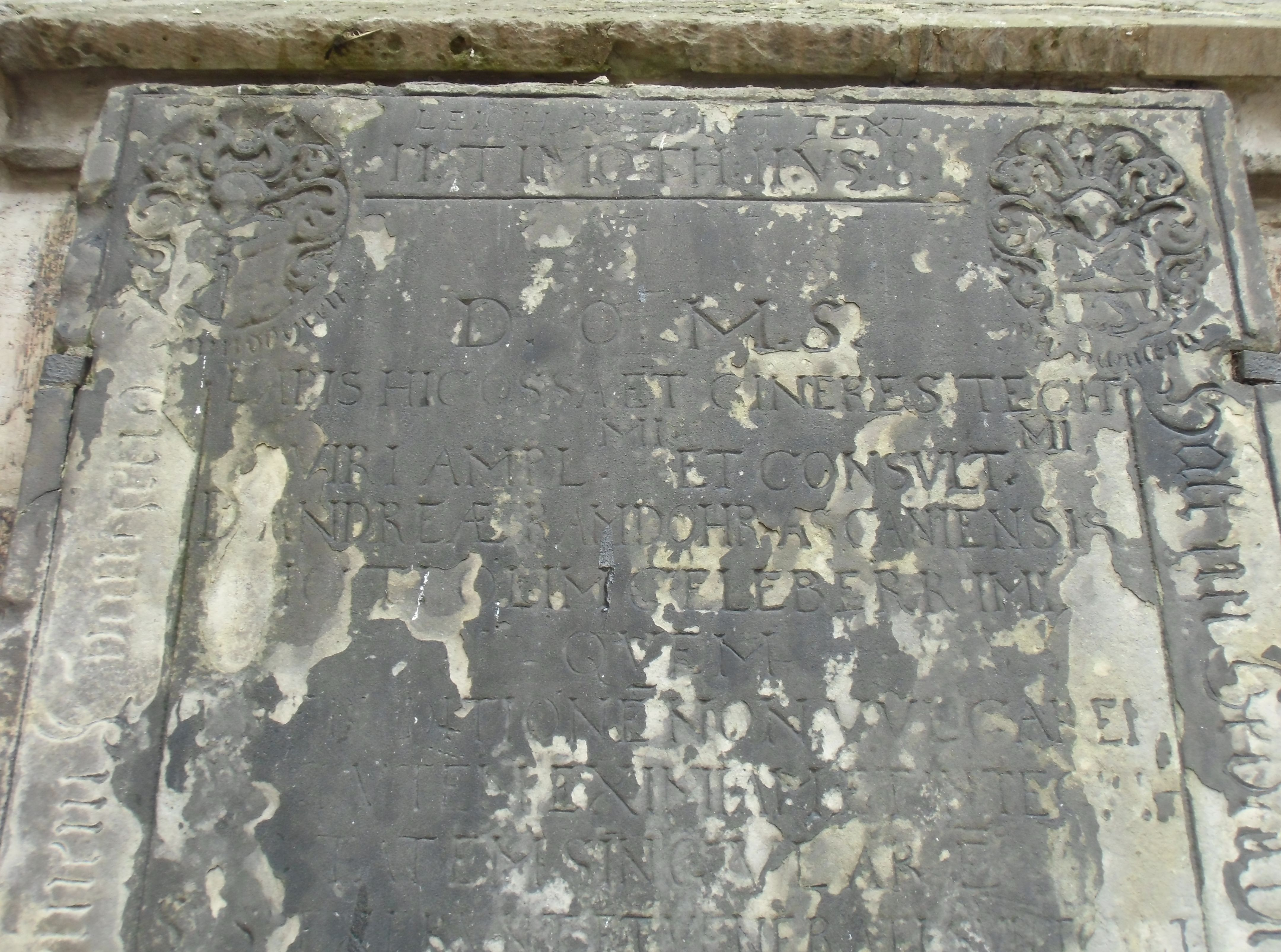 Comemorial stone of 1656 for Andreas Ramdohr in Brunswick